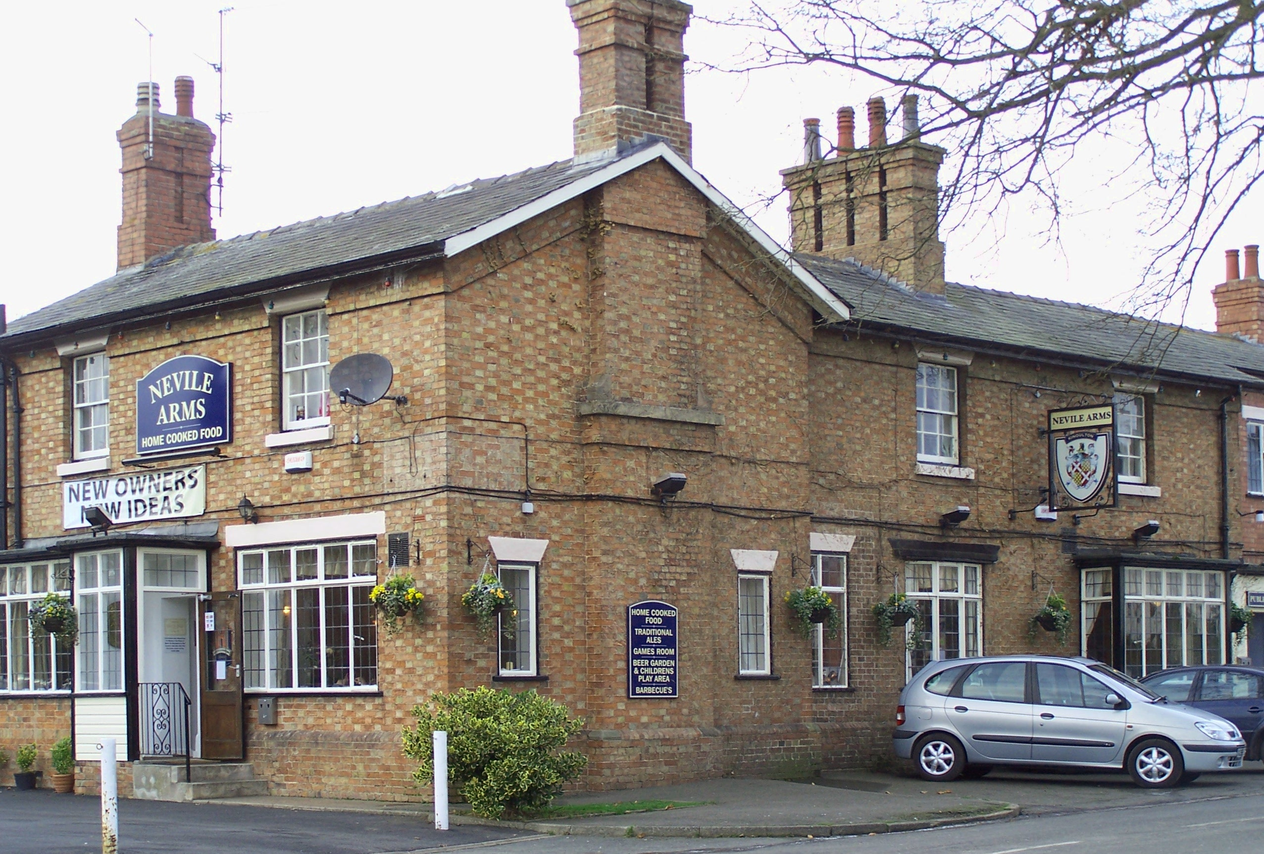 The Neville Arms at Kinoulton in Nottinghamshire. Photo by Russ Hamer